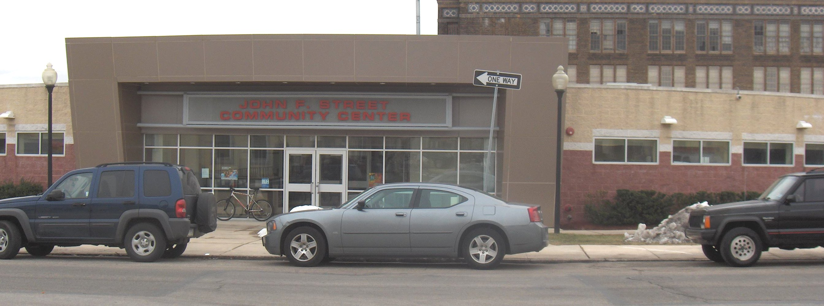 John F. Street Community Center, 1100 Poplar Street Philadelphia, PA 19123